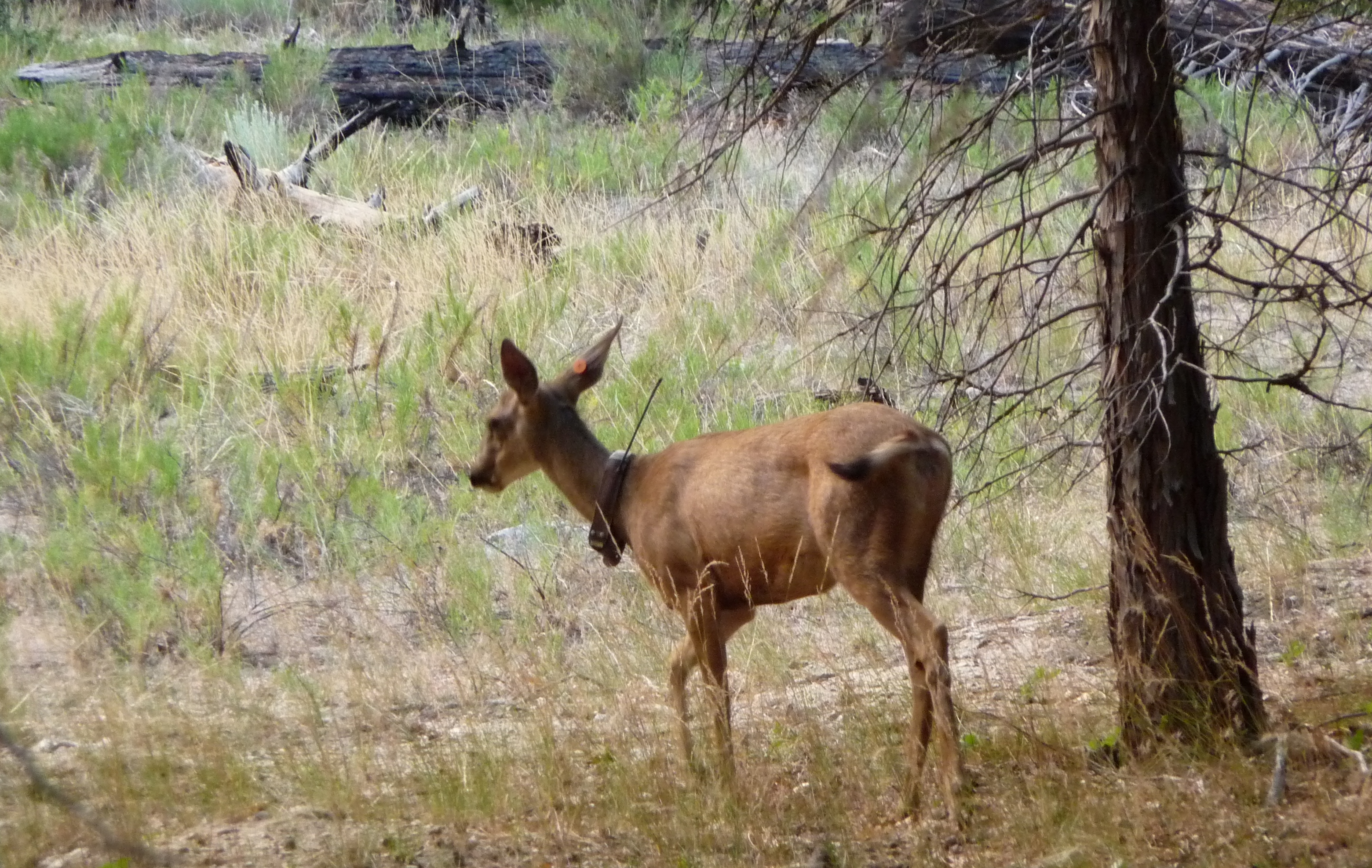 Kings Canyon National Park - Mule Deer with tracking collar near Zumwalt Meadow